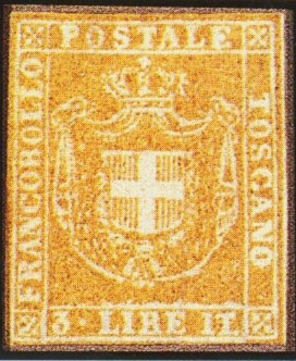 This is an image of a Tuscany postage stamp from 1860, Scott no. 23.